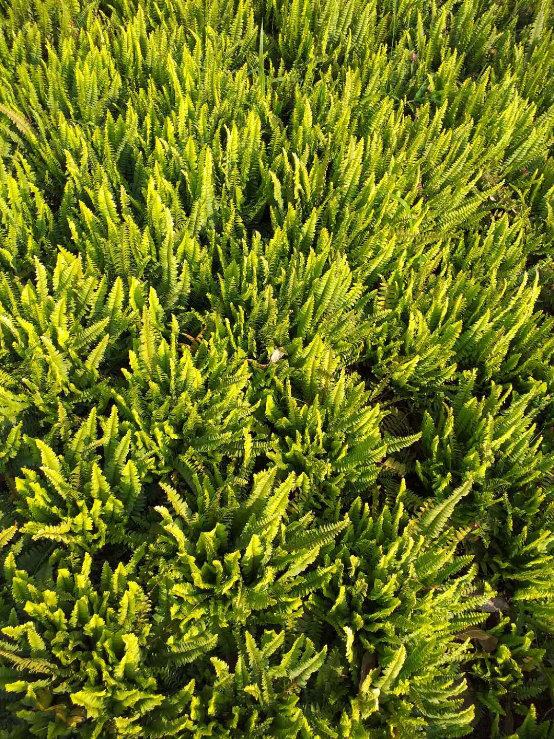 Nephrolepis exaltata, 2018 Taichung World Flora Exposition